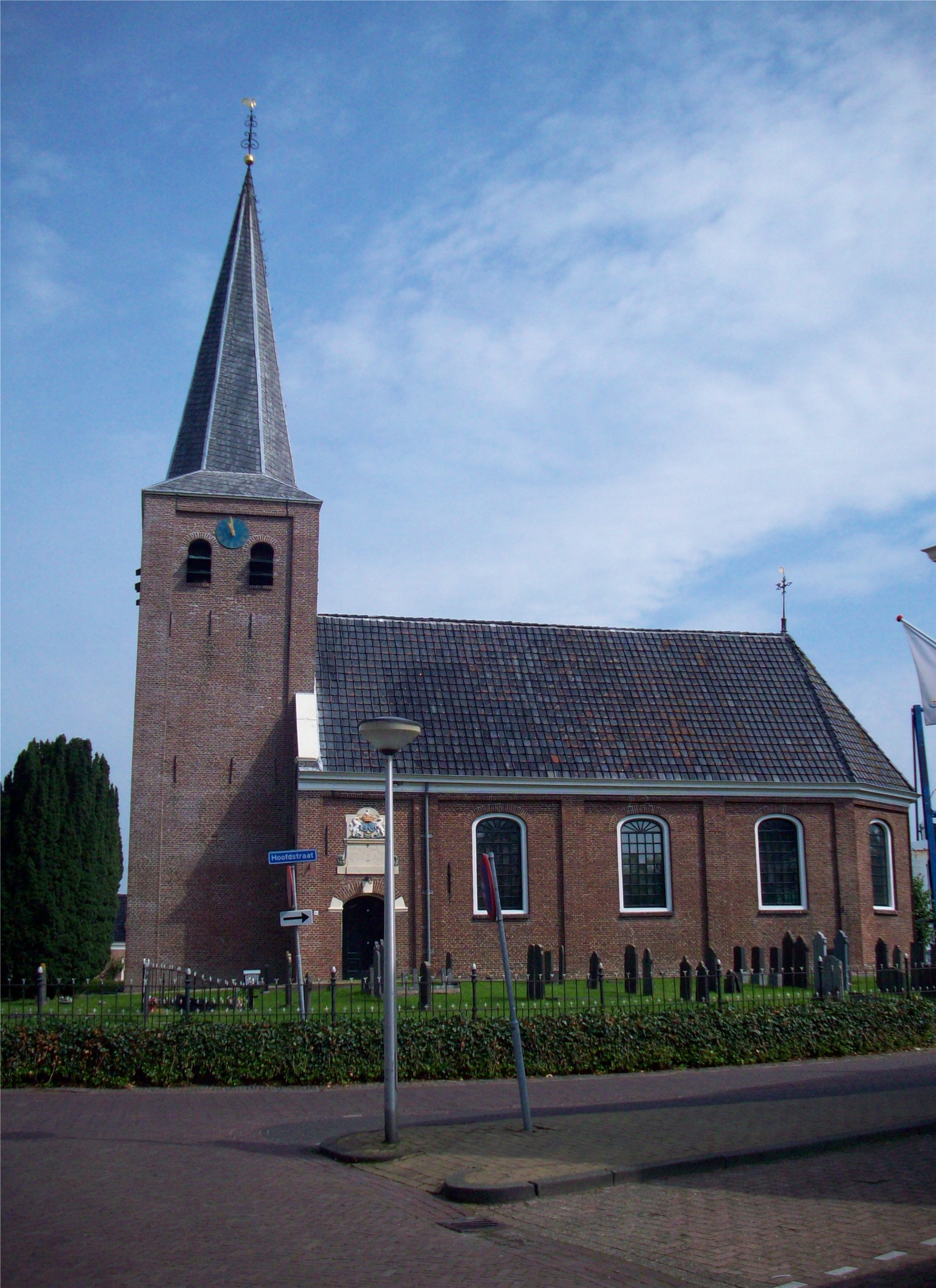 Church of Warten